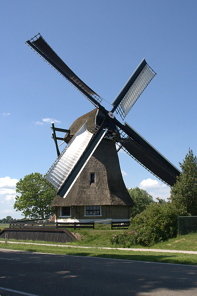 Windmill "De Hersteller" in Sintjohannesga, a village in the Dutch province of Friesland.